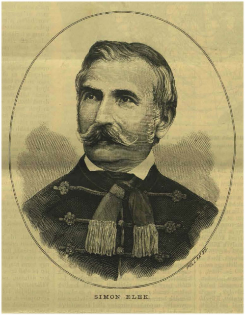 Elek SIMON (1813–1882), Hungarian lawyer from Transylvania, mayor of Kolozsvár